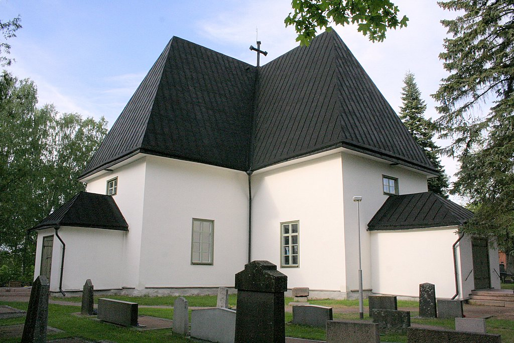 The church of the Evangelic-Lutheran parish in Lapinjarvi, Finland There are two churches side by side in the main village of the municipality of Lapinjarvi. They replaced the two churches which were burned 1742. The church in picture is called the Swedish church as it was ment originally for the Swedish speaking citizens. The church was build 1743–1744, plastered in white 1871 and the stained glasses are made by Lennart Segerstrale. The form of the base of this Swedish church is cross. The form of the base of the Finnish church is retangle and it was built in 1744.